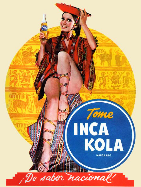 Advertisement for Inca Kola featuring Peruvian model Gladys Arista.